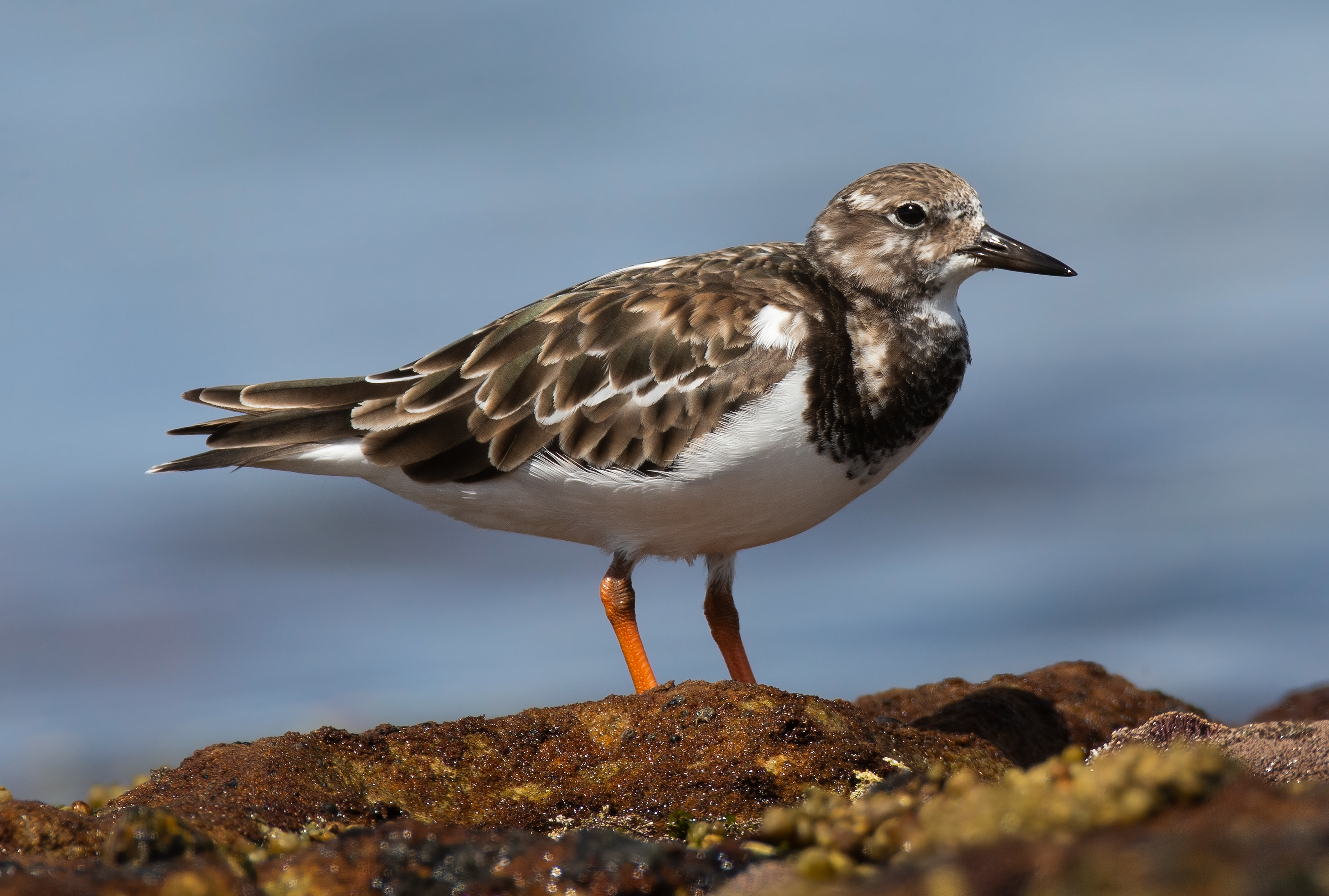 Ruddy Turnstone (Arenaria interpres), Boat Harbour, New South Wales, Australia